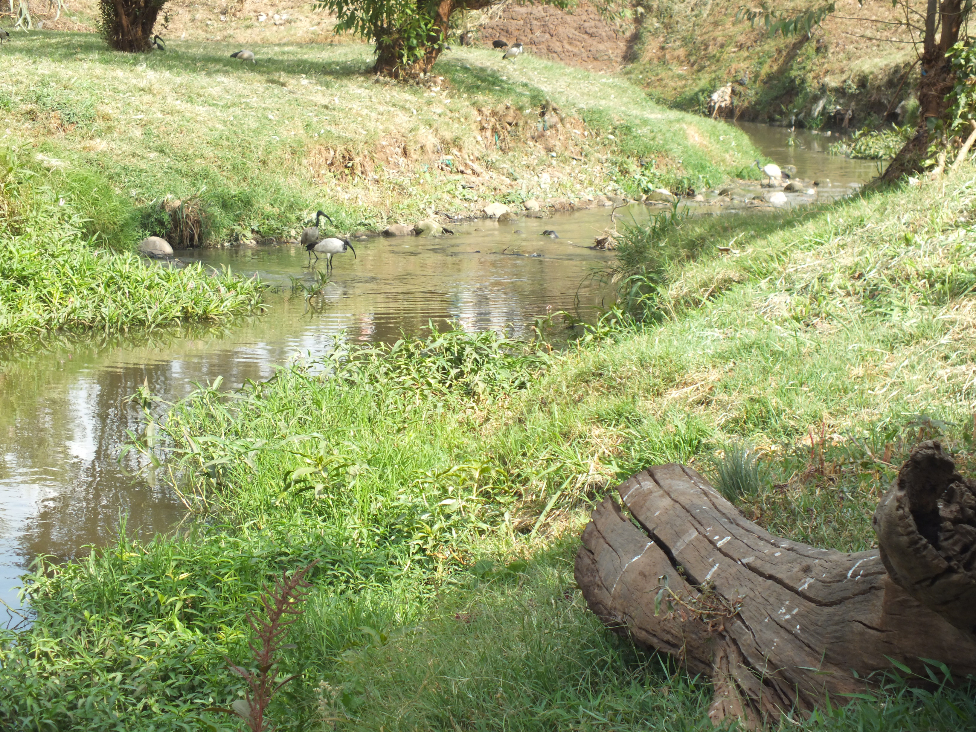 The section of the river north-east of the CBD seems to be moderately improving in levels of water quality and appearance. And so does the public awareness.Kiswahili: Mto Nairobi.